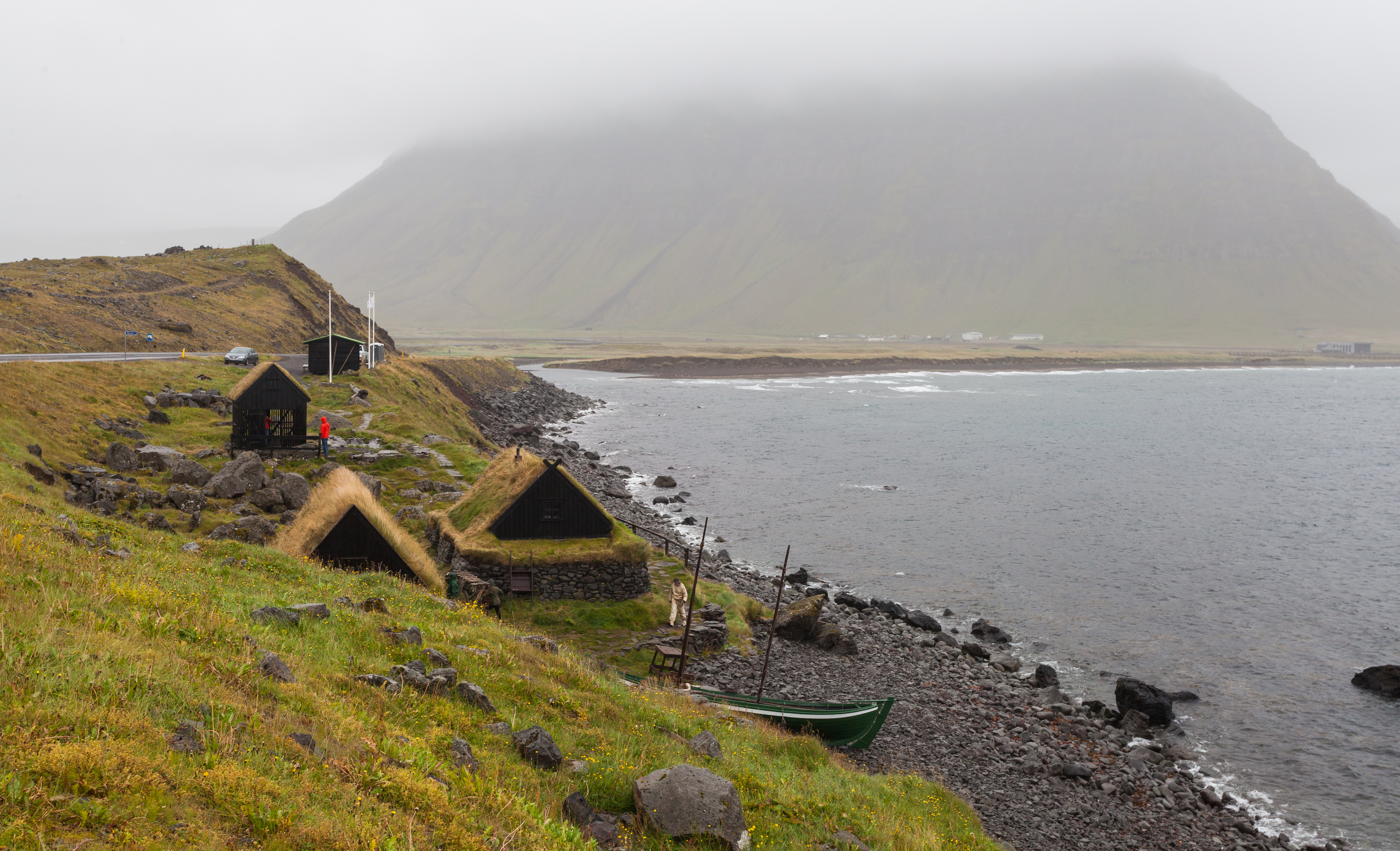 Ósvör maritime museum, Bolungarvík, Vestfirðir, Iceland.